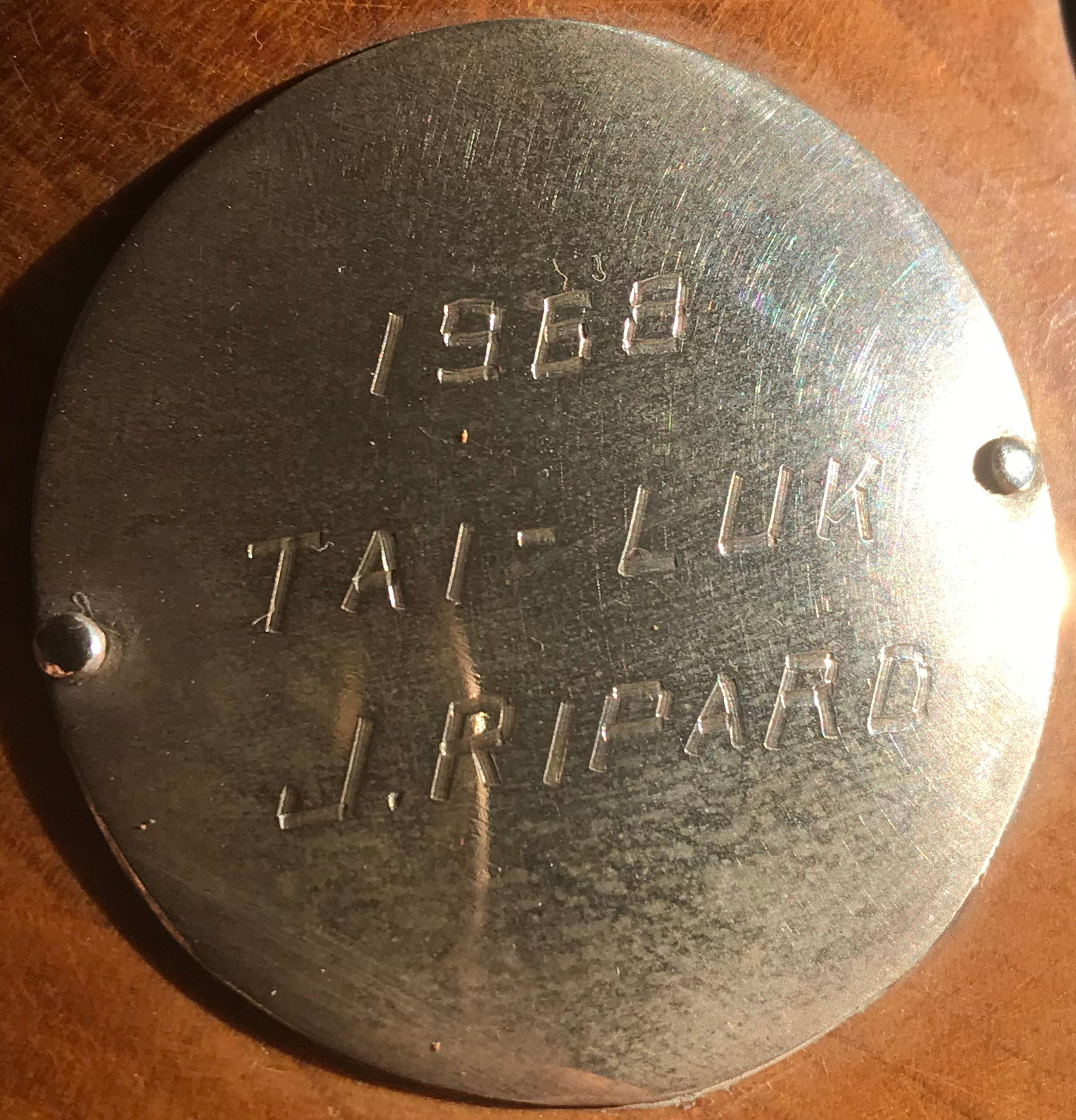 Patch on the Trophy